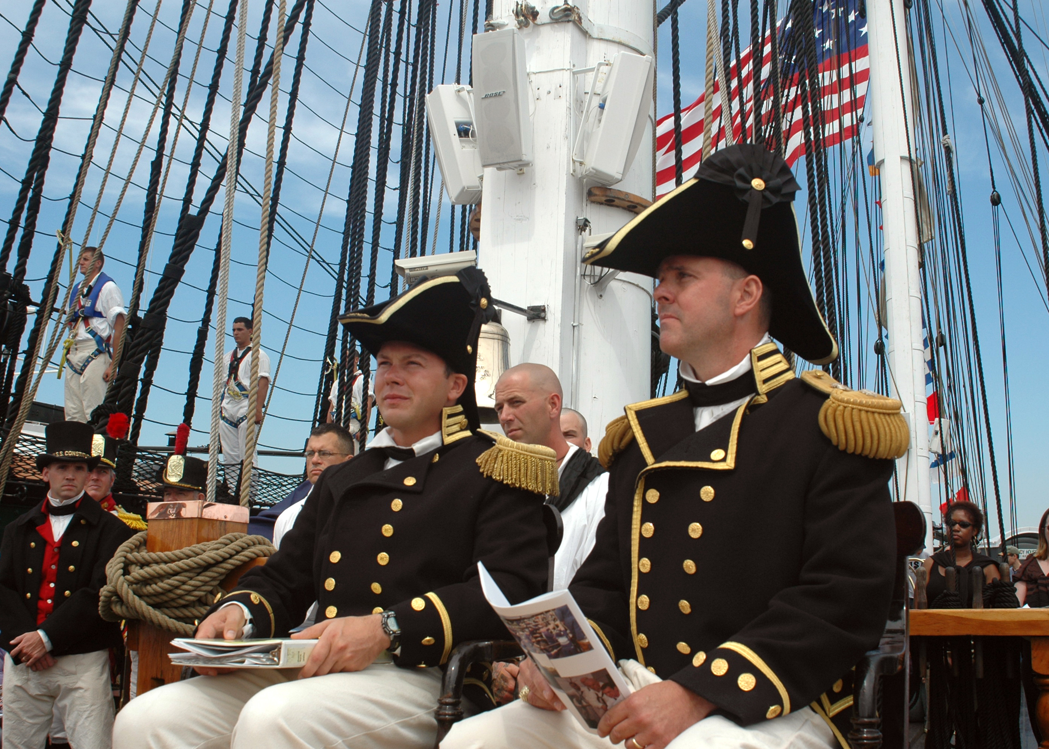 Boston, Mass. (July 30, 2005) – U.S. Navy Cmdr. Thomas C. Graves and Executive Officer Lt. Brad Coletti look on during USS Constitution change of command ceremony. Graves became the 69th commanding officer of the historic vessel, relieving Cmdr. Lewin C. Wright in the at-sea ceremony. The occasion marked the first in which Graves wore his 1813-era Naval officer’s uniform aboard the ship. U.S. Navy photo by Journalist 1st Class Matt Chabe (RELEASED)